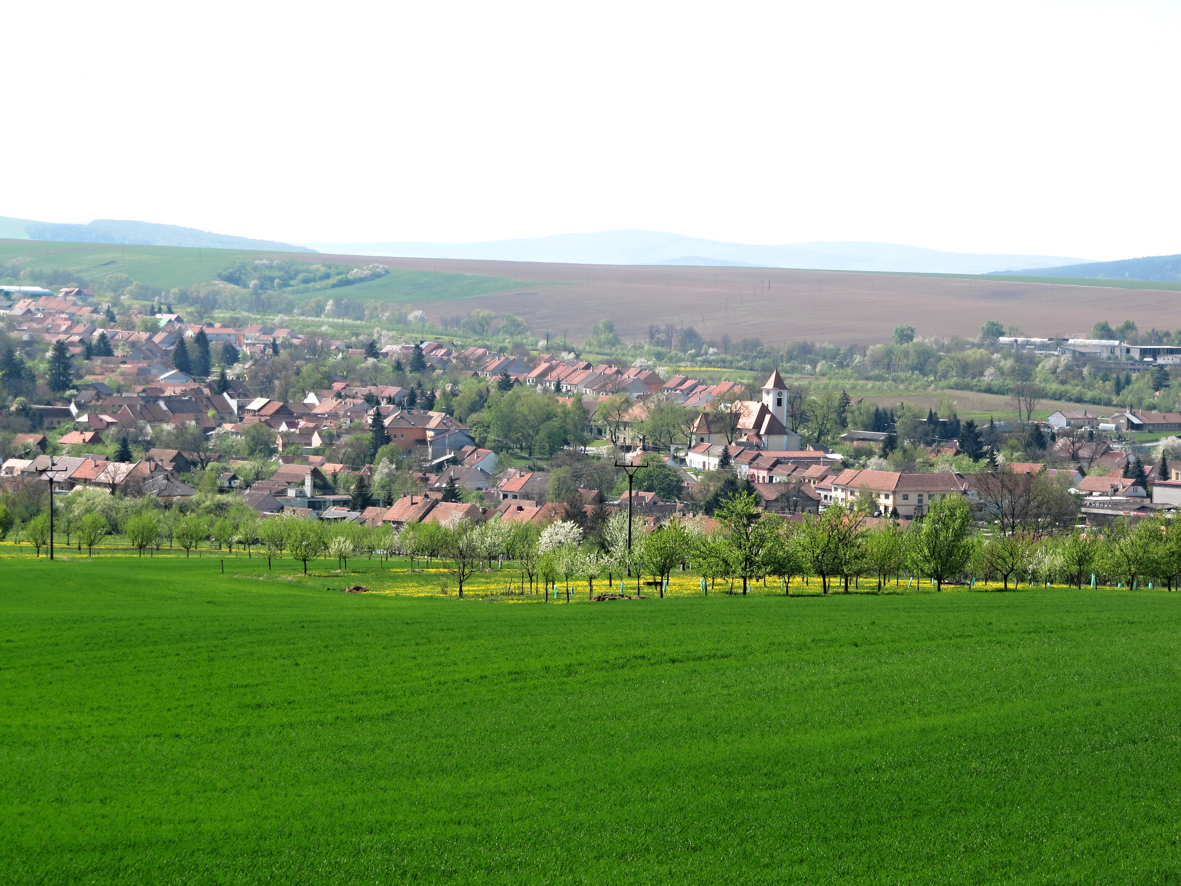 Vlčnov in Uherské Hradiště District, Czech Republic. General view from Vlčnovské búdy (Winecellars of Vlčnov), village monument reserve.